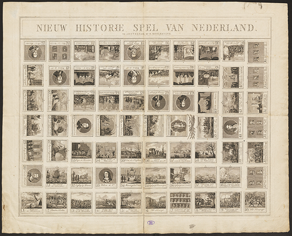 Game of the Goose depicting the history of the Netherlands (ca. 1822)